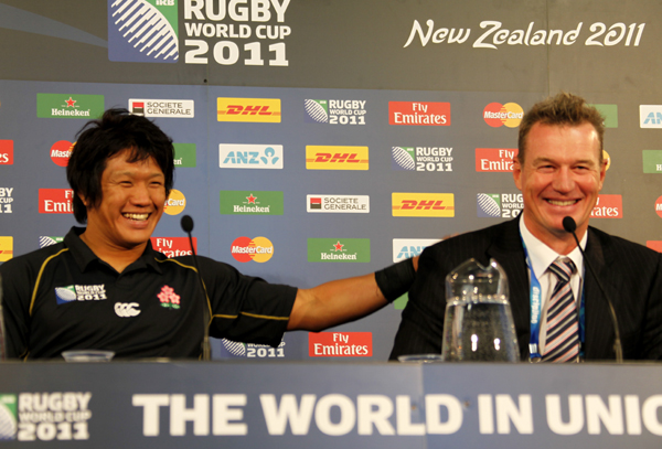 Takashi Kikutani and John Kirwan, respectively captain and head coach of Japan national rugby union team, at a press conference during the 2011 Rugby World Cup